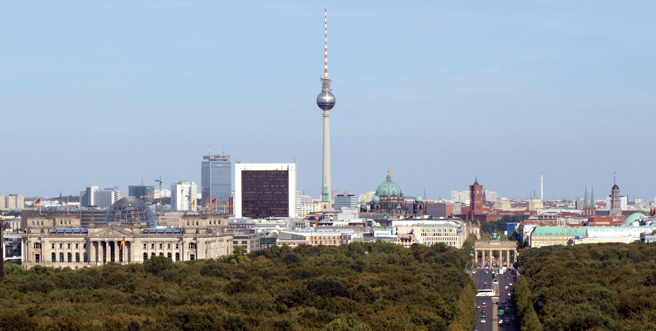 Berlin Cityscape, shot from Siegessäule (warmed version)